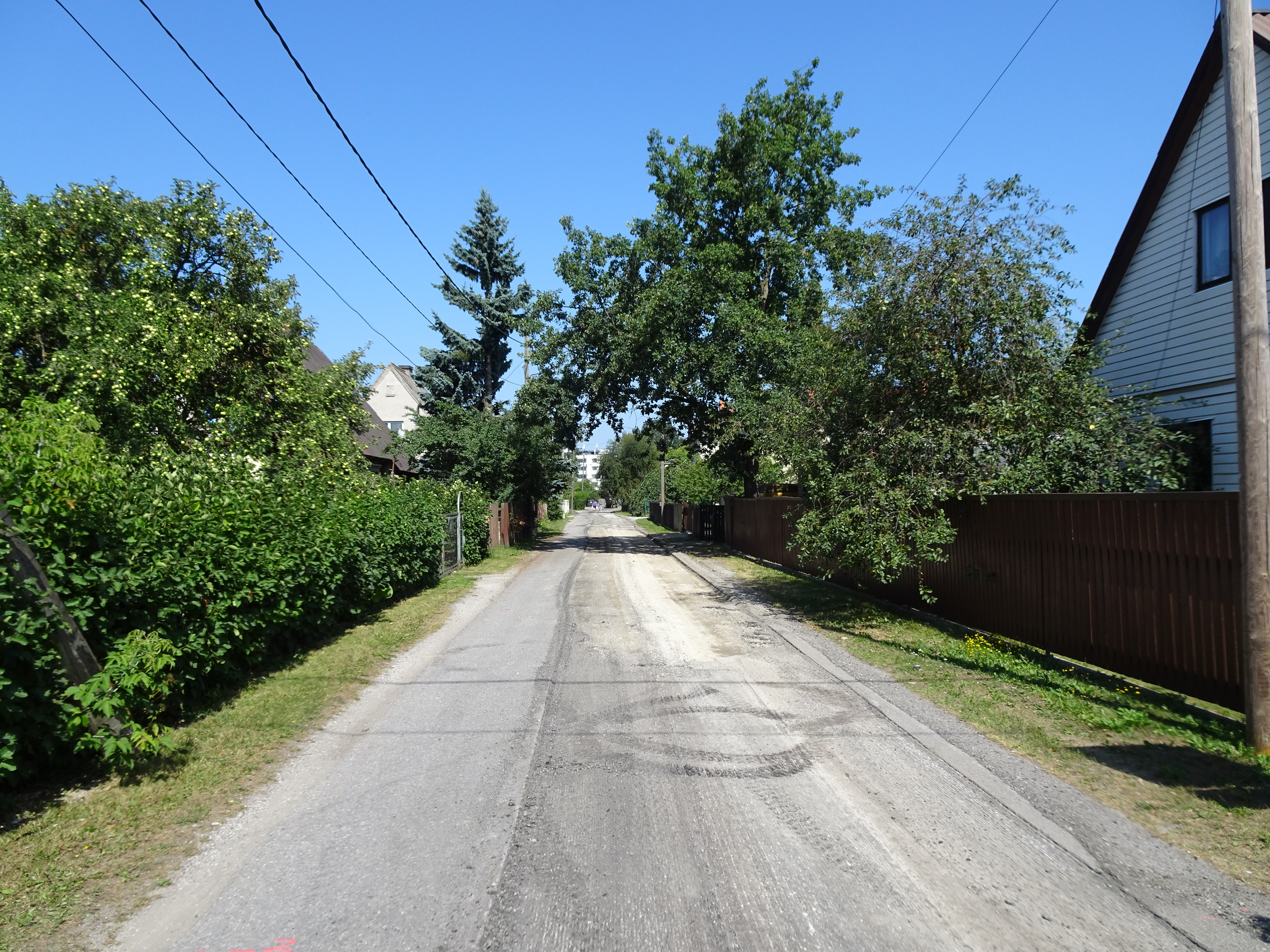 Meika Street in Tallinn, Estonia